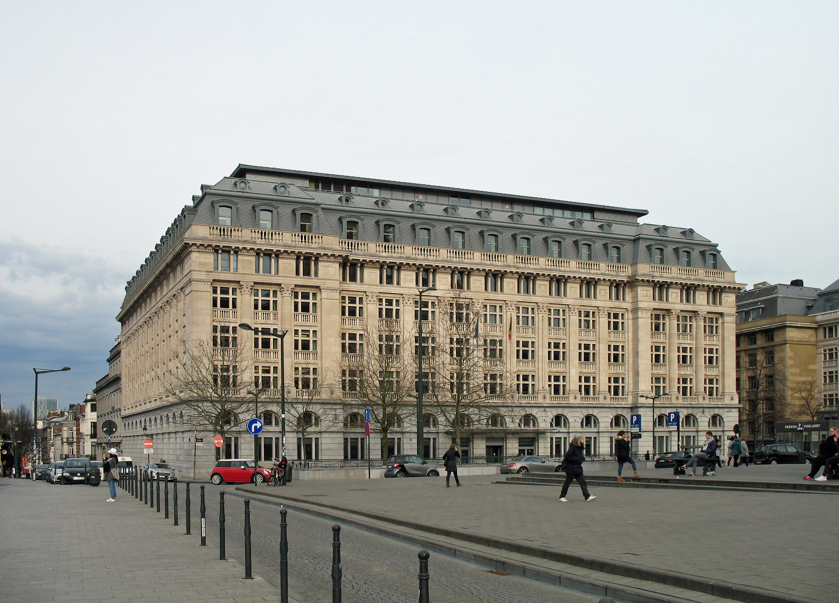 Brussels (Belgium), Place Poelaert / Poelaertplein: former hotel La Régence by the Belgian architect Ernest Jaspar (1876-1940), now Labour Court.